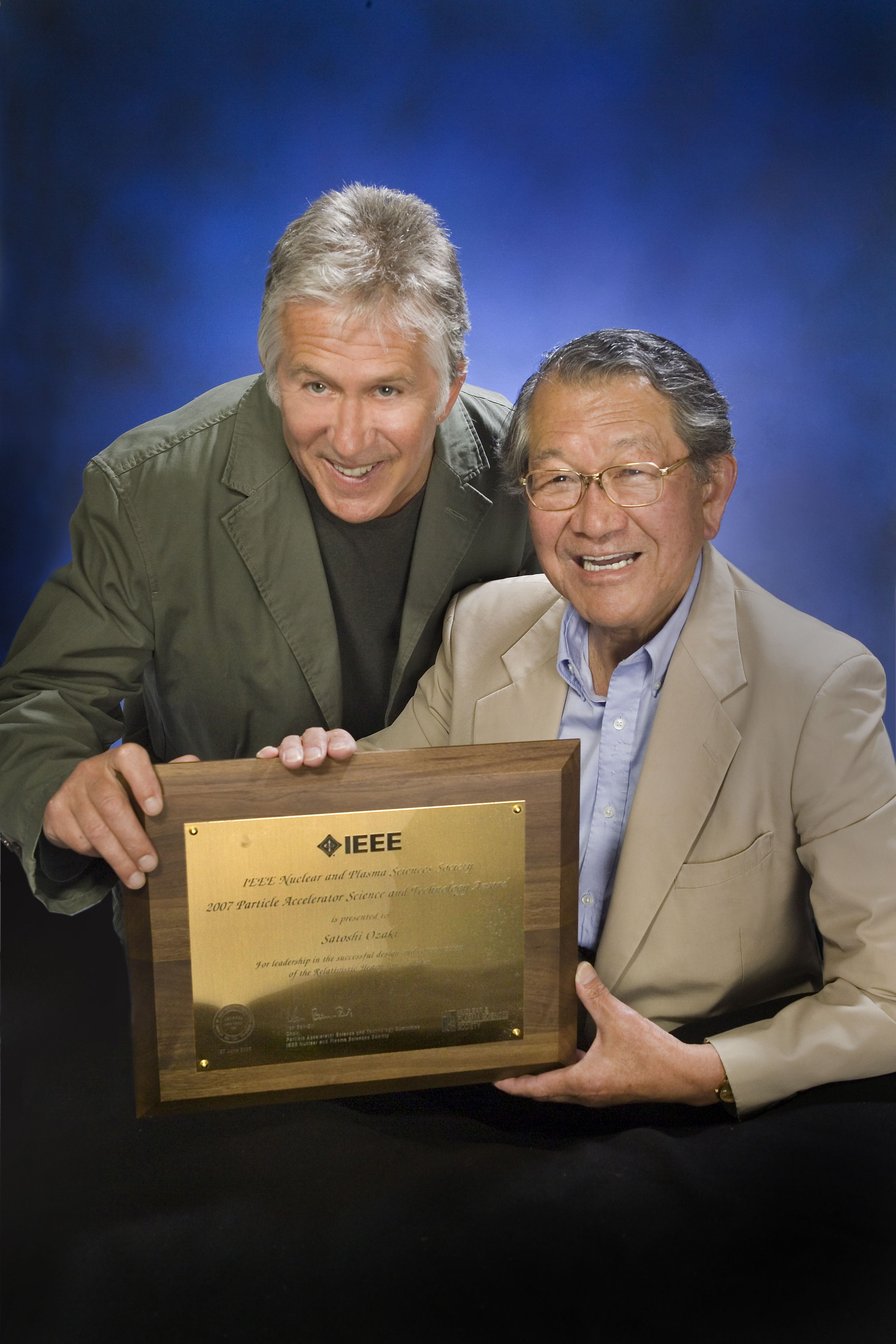 Satoshi Ozaki and Michael Harrison, Physicist Administrators of the Brookhaven National Laboratory, were presented the Particle Accelerator Science and Technology Award by the Nuclear and Plasma Sciences Society, Institute of Electrical and Electronics Engineers on 2007.